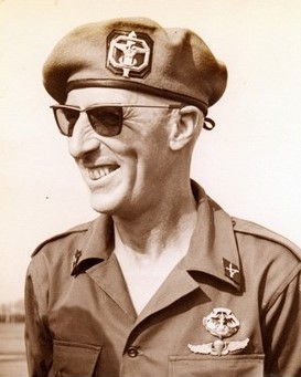 First Commander of Kopassus